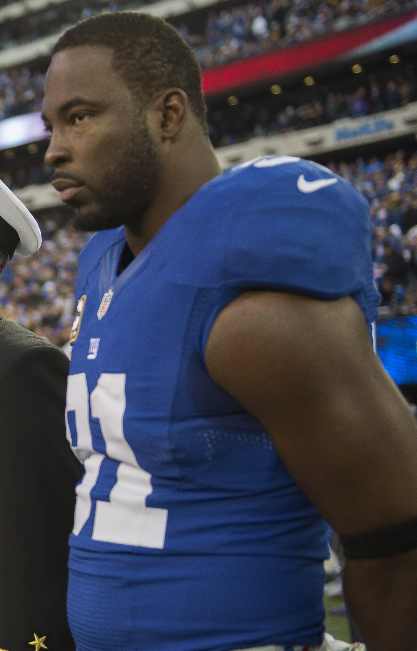 New York Giants defensive end, Justin Tuck, during a game against the Pittsburgh Steelers on November 4, 2012.